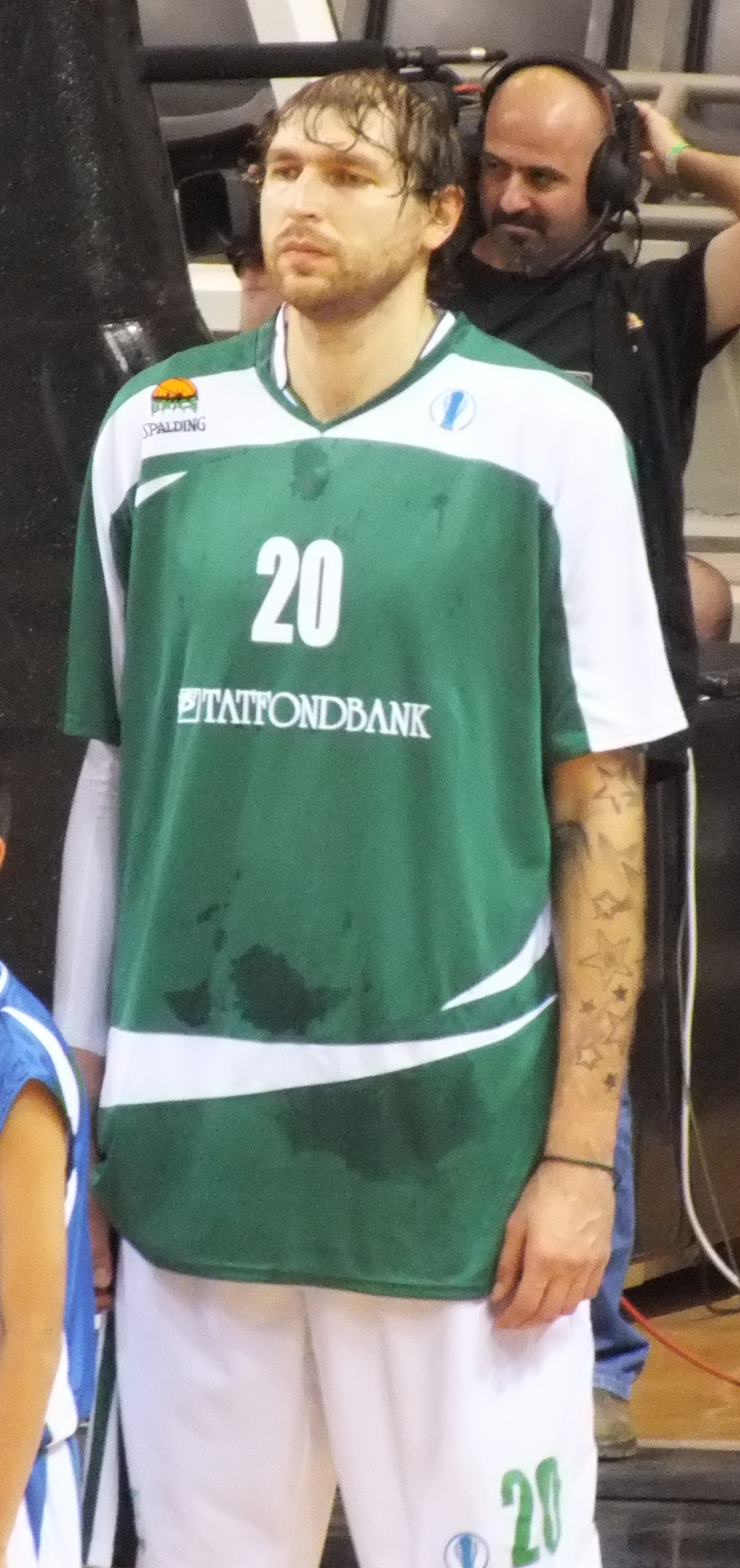 A basketball scene.